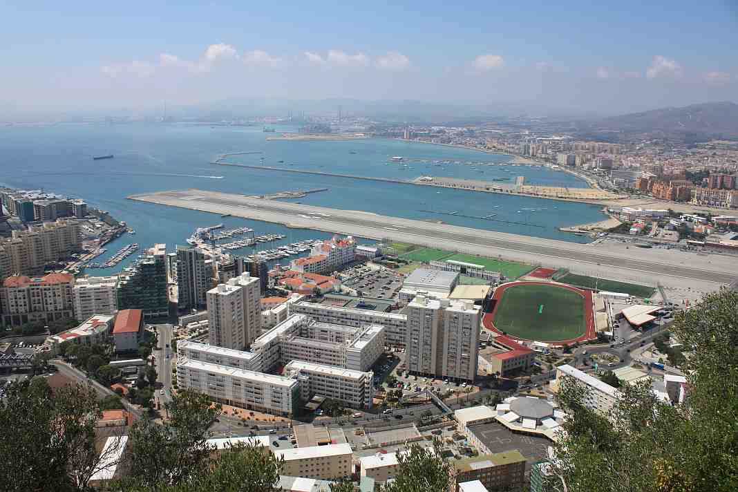 Western end of runway with part of La Linea